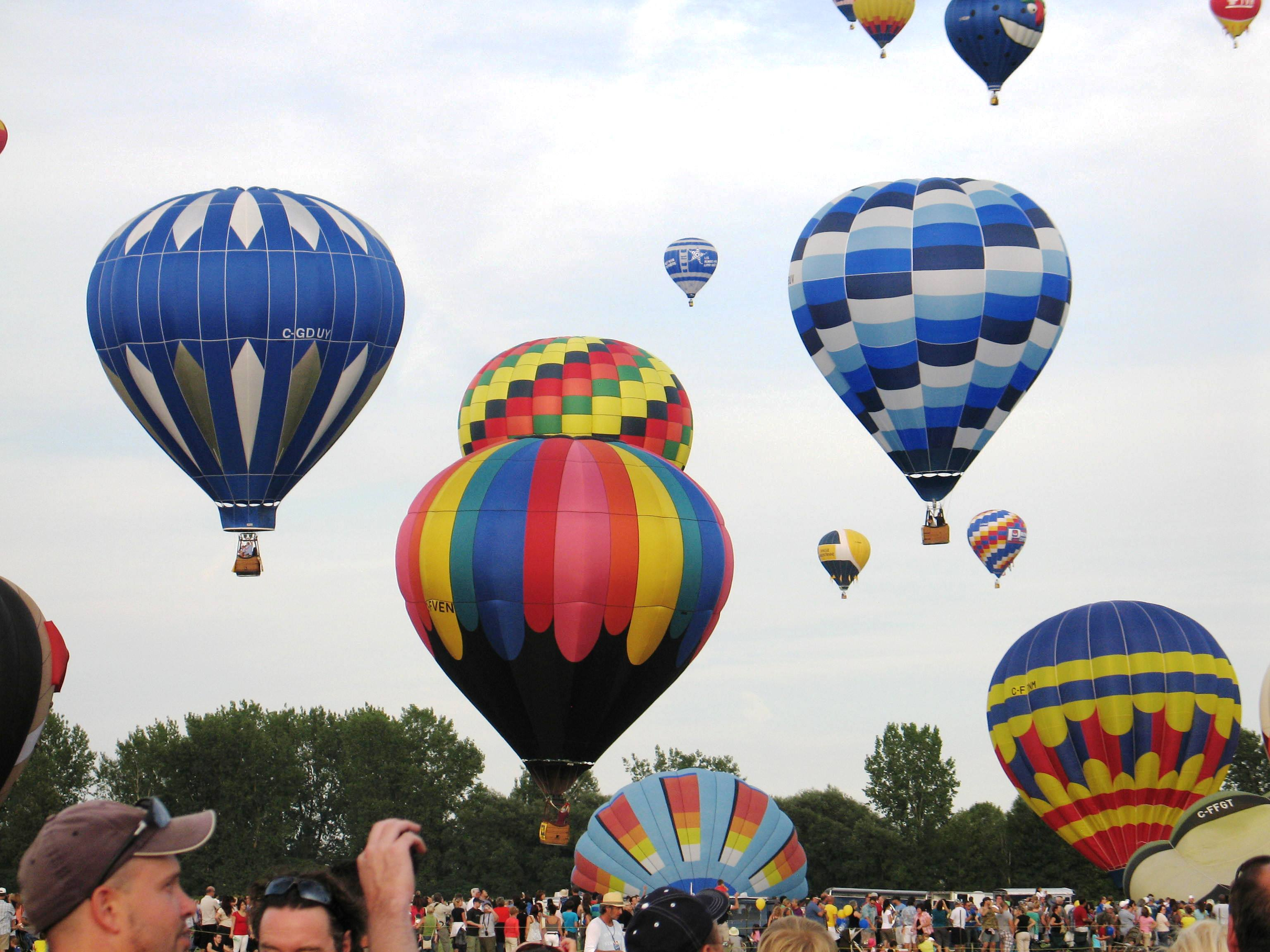 Evening ascent at the International Balloon Festival of Saint-Jean-sur-Richelieu, Quebec.